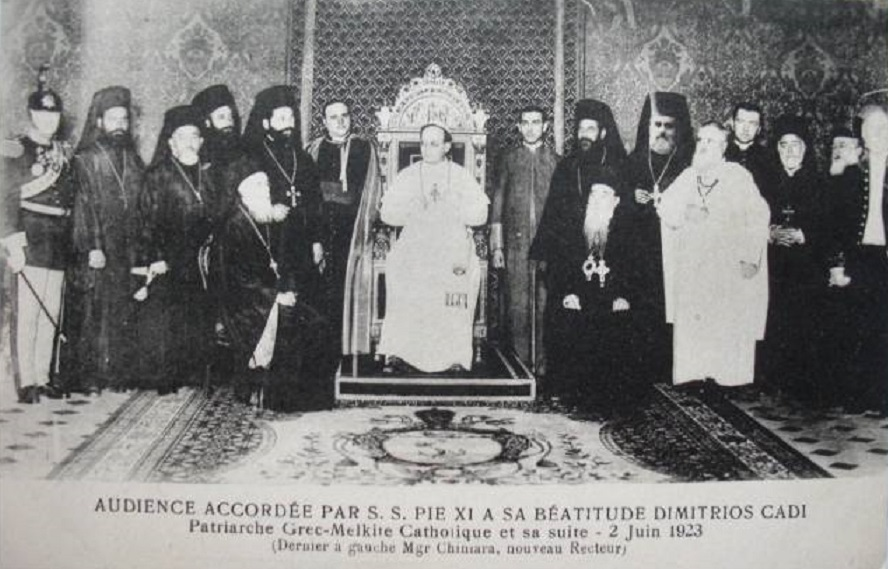 Picture of the papal audience granted by Pius XI to Demetrius I Qadi, Patriarch of the Melkite Greek Catholic church, and his suite in June 1923. Contemporary postcard.